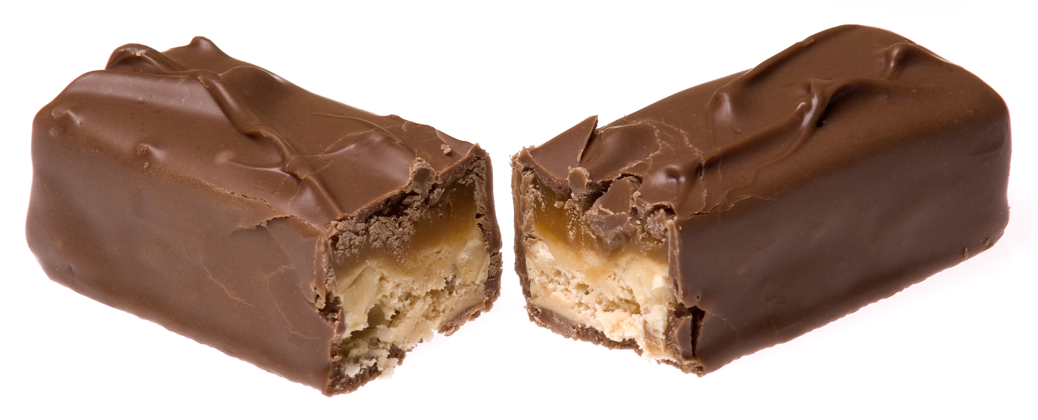 A Topic candy bar that has been split in half.